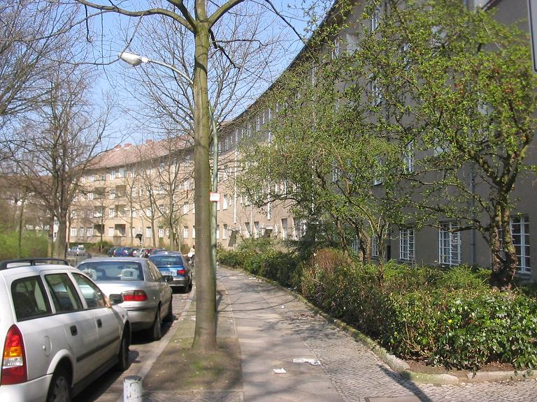 Alboinplatz in Berlin-Schöneberg, Germany. Building at the east-side, belonging to Berlin-Tempelhof, drafted 1929/1931 by Erich Glas und Hans Jessen.